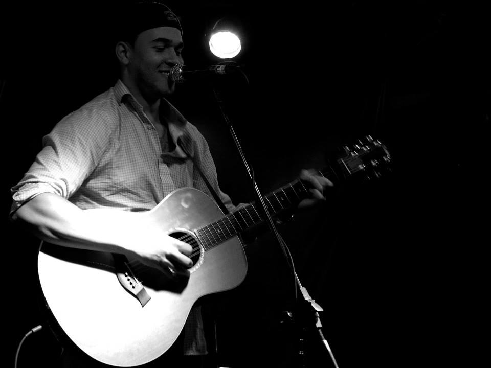 This is a photograph of Chad Price performing in Vancouver at The Railway Club in June of 2013